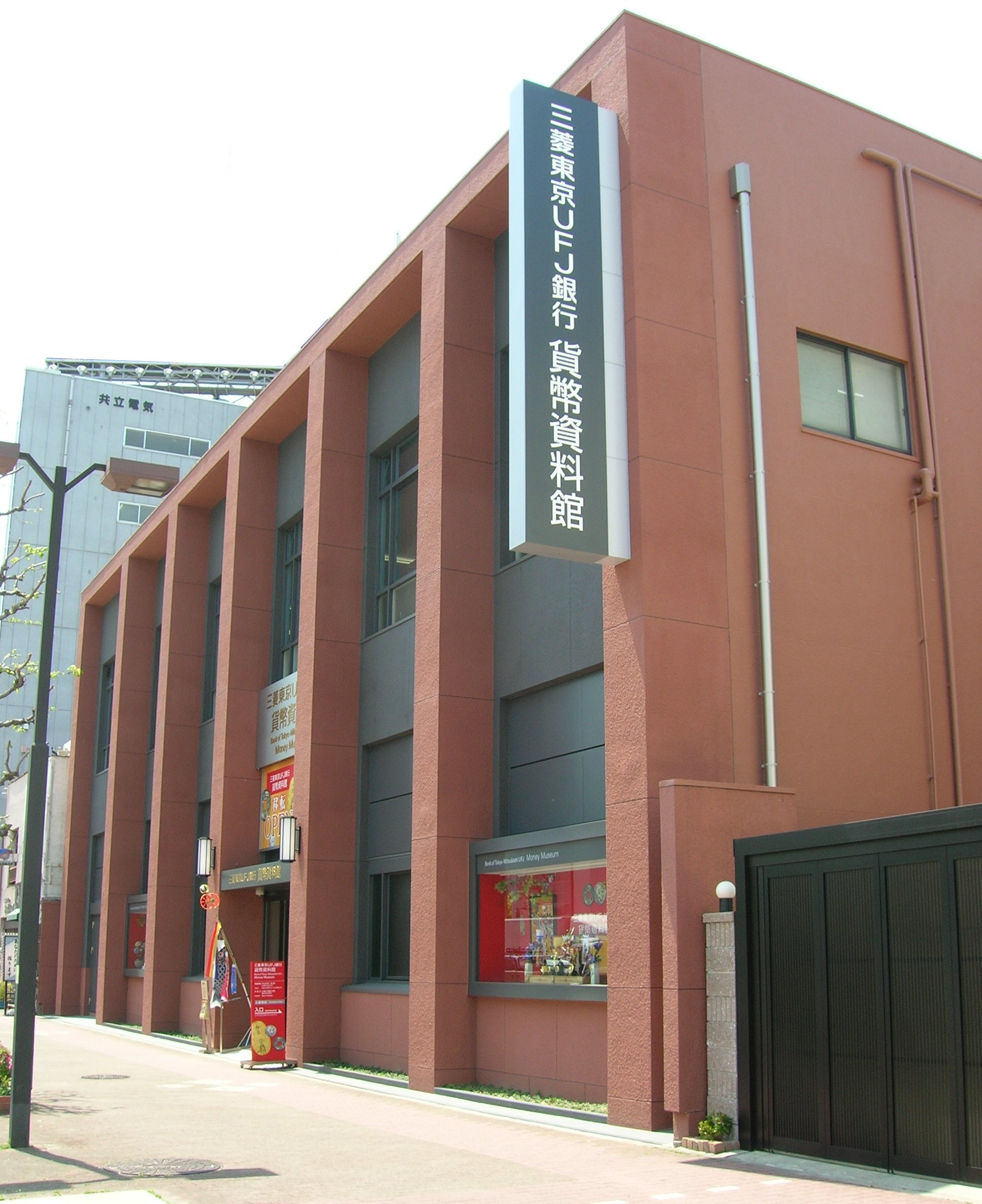 Bank of Tokyo-Mitsubishi UFJ Money Museum. Loc: Higashi-ku, Nagoya city, Aichi Prefecture, Japan. 三菱東京UFJ銀行貨幣資料館 撮影場所 愛知県名古屋市東区赤塚